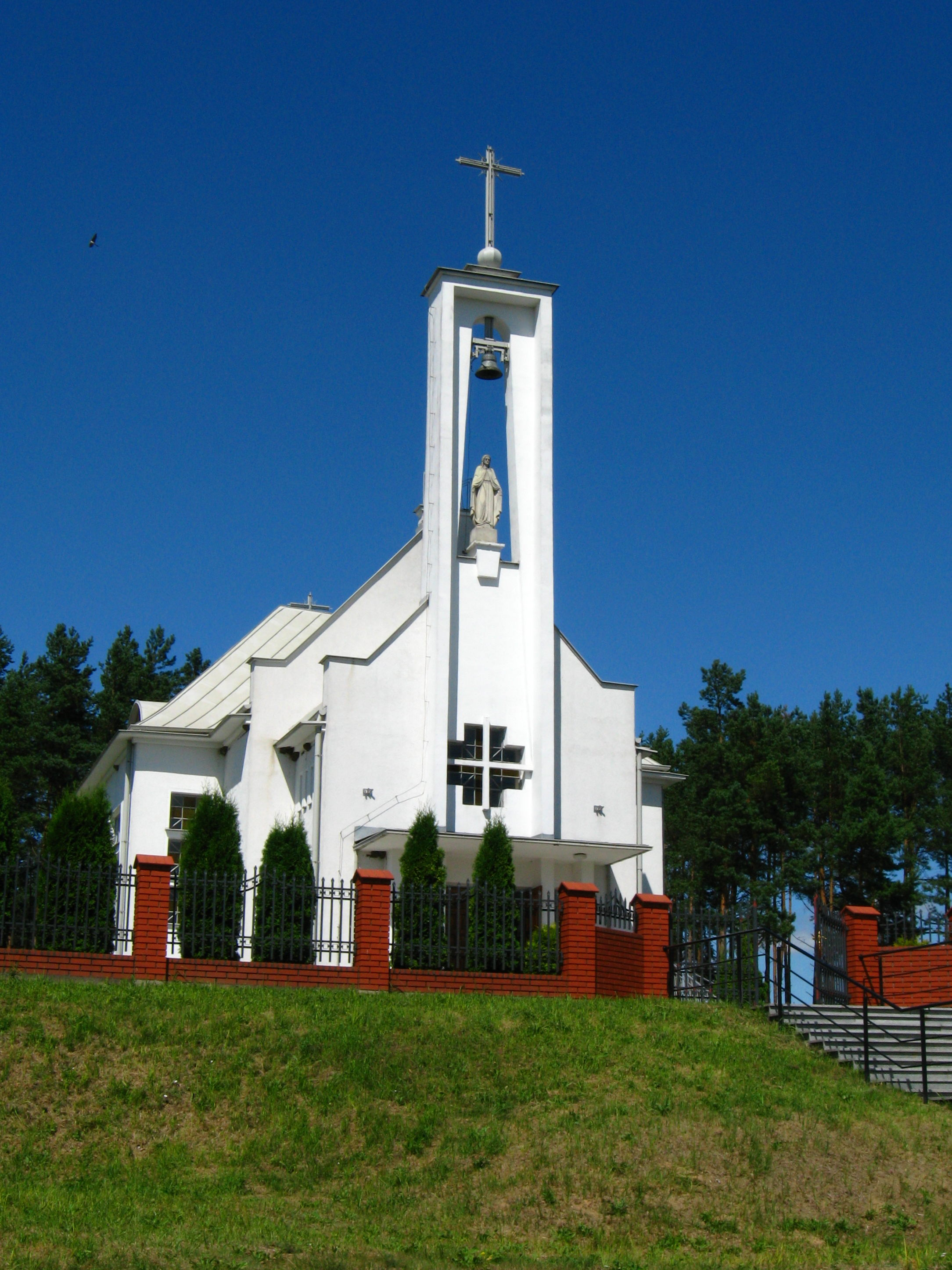 Kozińce — church dedicated to BVM of Perpetual Assistance; built in 1984–87 on initiative of priest Józef Zubowski and village inhabitants, by design of engineer Stanisław Smaczny; 1